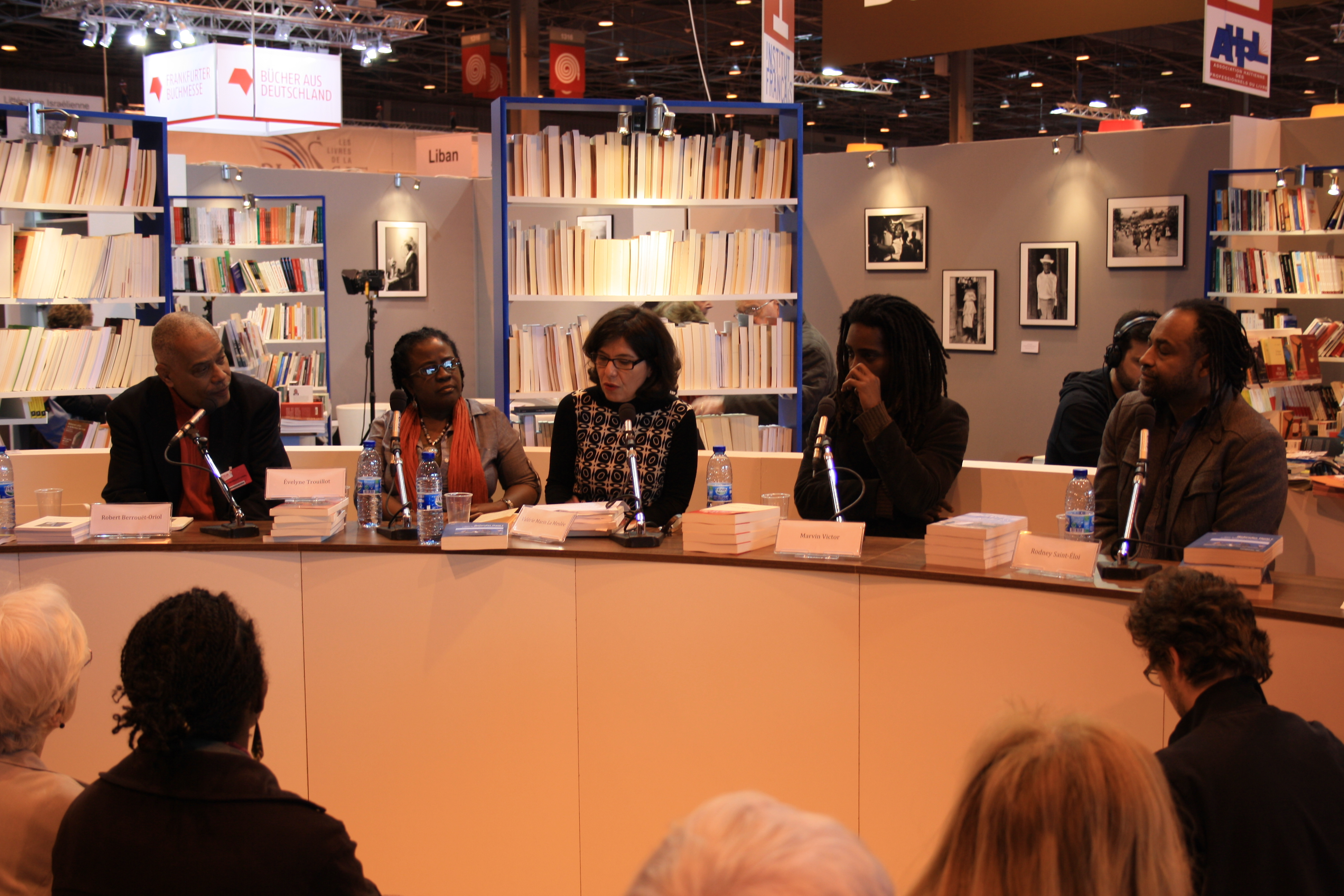 Conference with Robert Berrouët-Oriol, Éveline Trouillot, Valérie Marin La Meslée, Marvin Victor and Rodney Saint-Éloi at the Salon du Livre in Paris, France